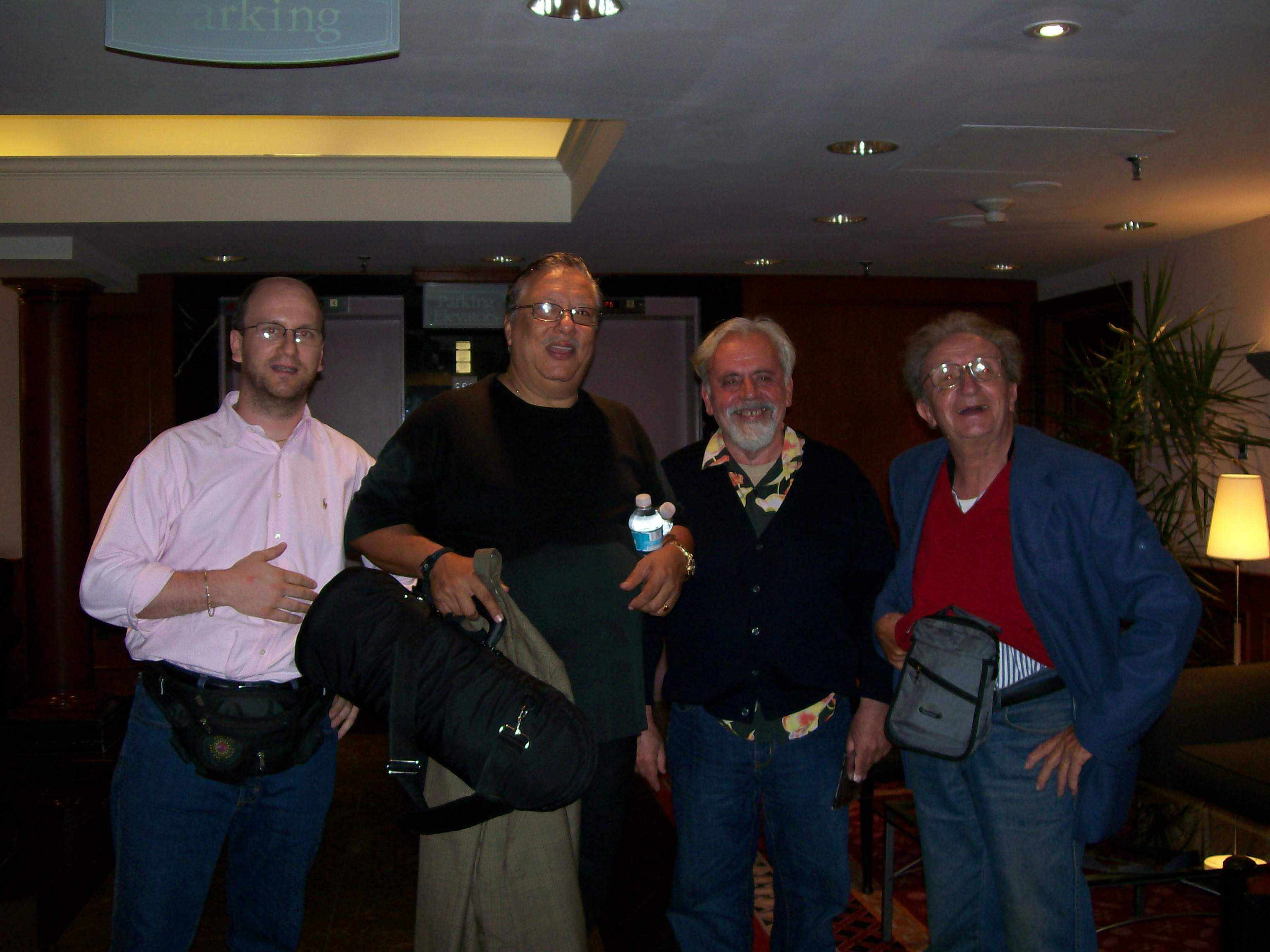 Denner Quintet & Arturo Sandoval